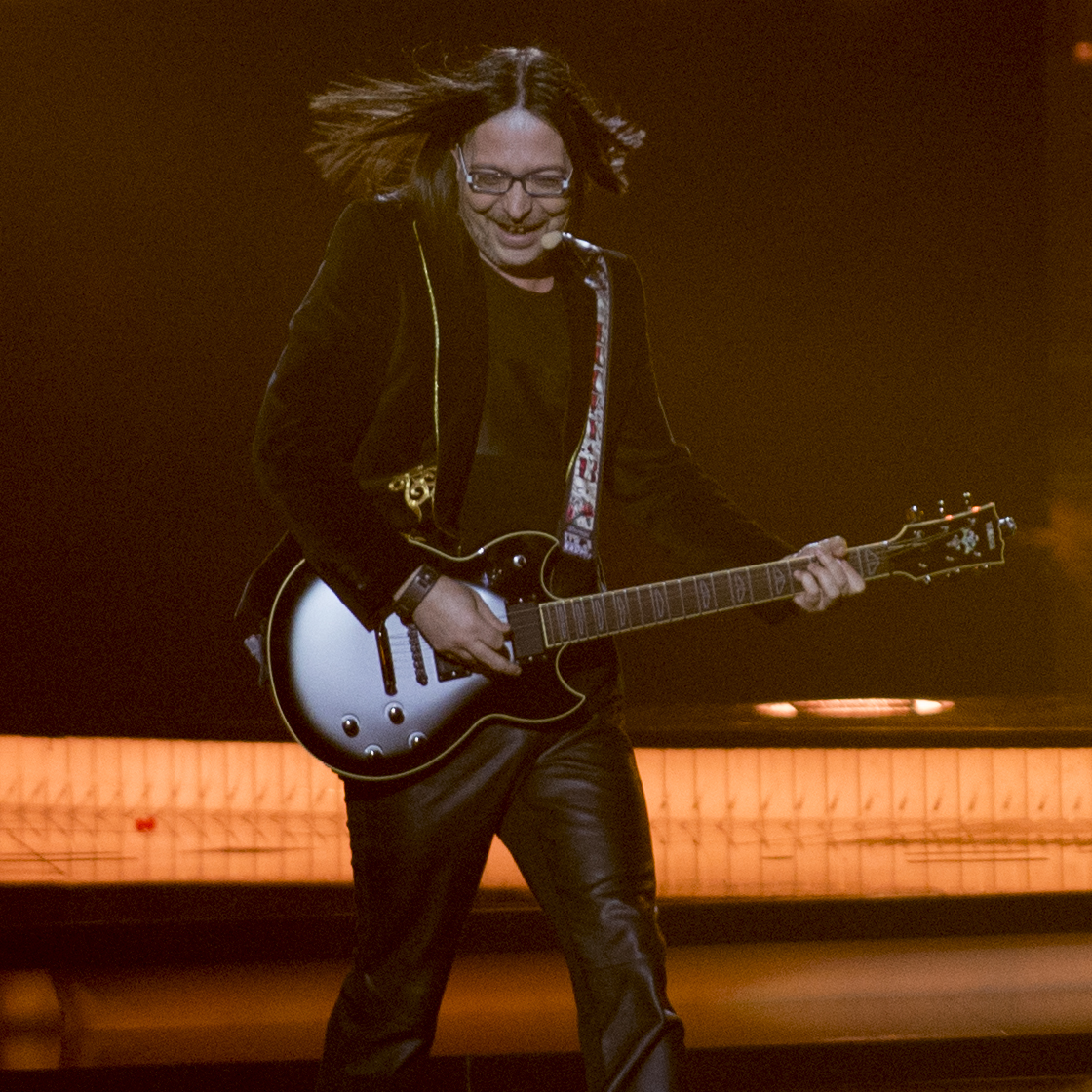 Adrian Lulgjuraj & Bledar Sejko from Albania performing their song in the second dress rehearsal for the second semi final of the Eurovision Song Contest 2013.